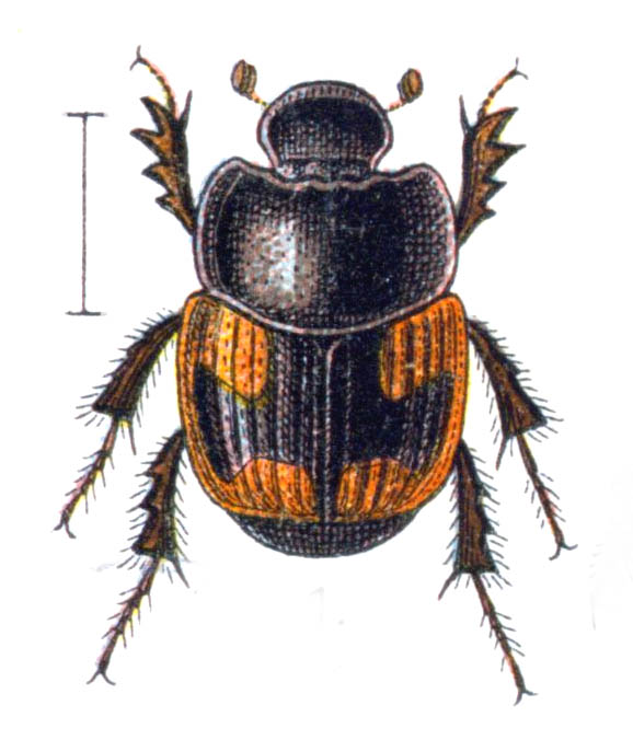 Caccobius schreberi, from Fauna Germanica. Die Käfer des Deutschen Reiches. I. & II. Band. Farbendrucktafeln von Dr. K.G. Lutz. K.G. Lutz' Verlag, Stuttgart 1908